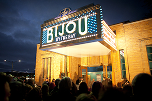 This is what you'll see from the front entrance of the theater.